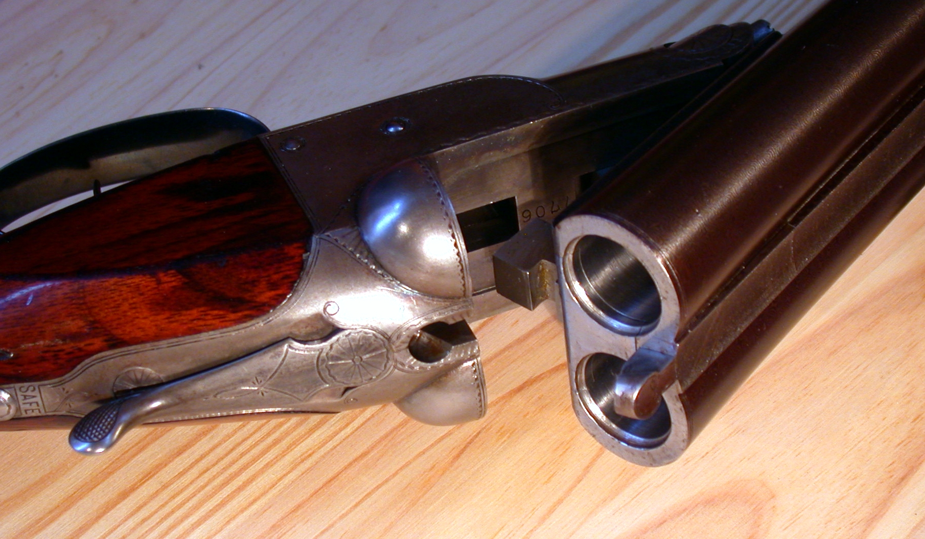 Colt Shotgun, open for loading